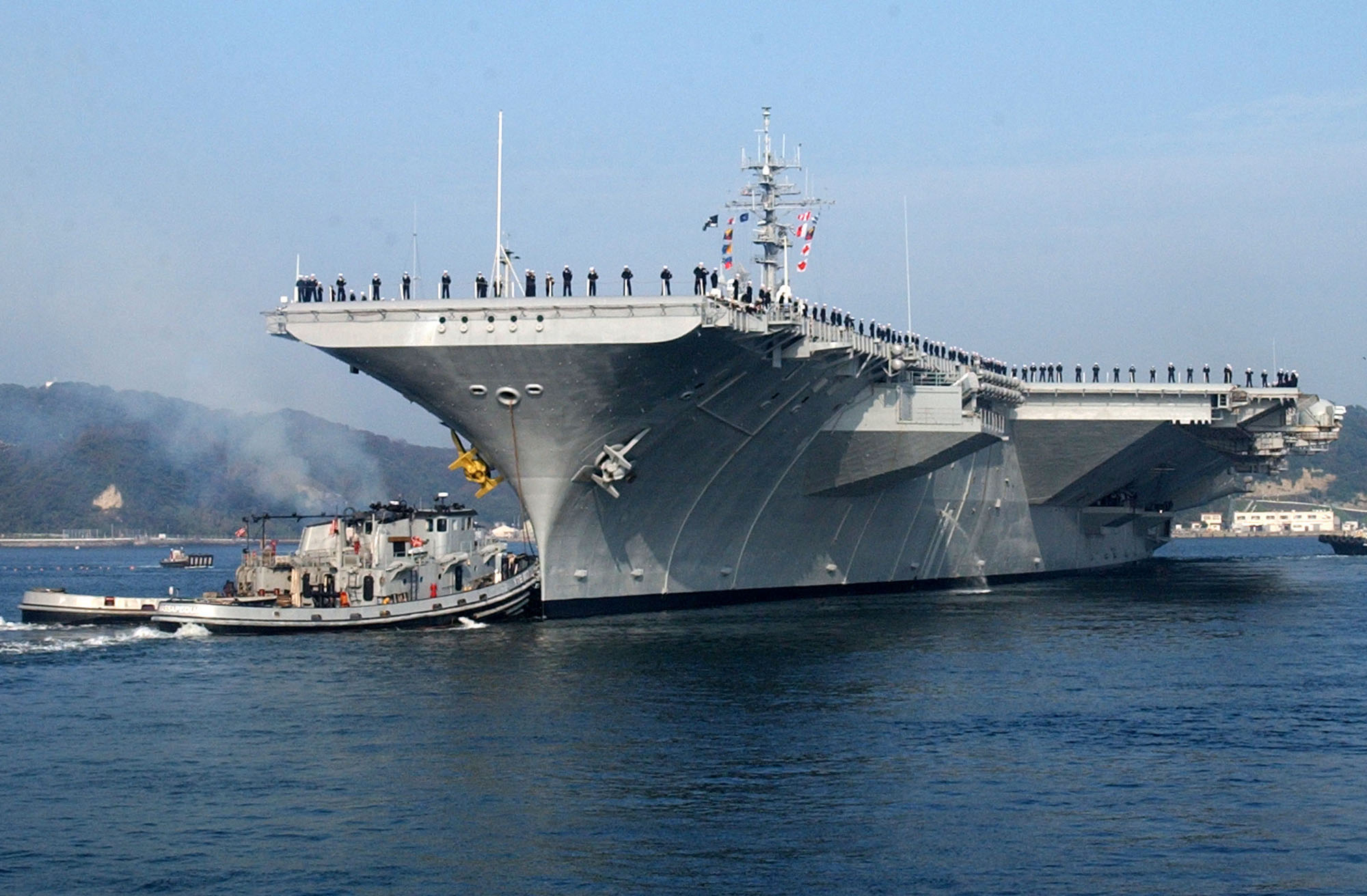 Command Fleet Activities Yokosuka, Japan (Oct. 25, 2002) -- Tugboats assigned to Fleet Activities Yokosuka assist the aircraft carrier USS Kitty Hawk (CV 63) in getting underway for a scheduled sea period to conduct routine training. Kitty Hawk is the Navy’s only permanently forward-deployed aircraft carrier and operates out of Yokosuka, Japan. U.S. Navy photo by Photographer's Mate 2nd Class David A. Levy. (RELEASED)